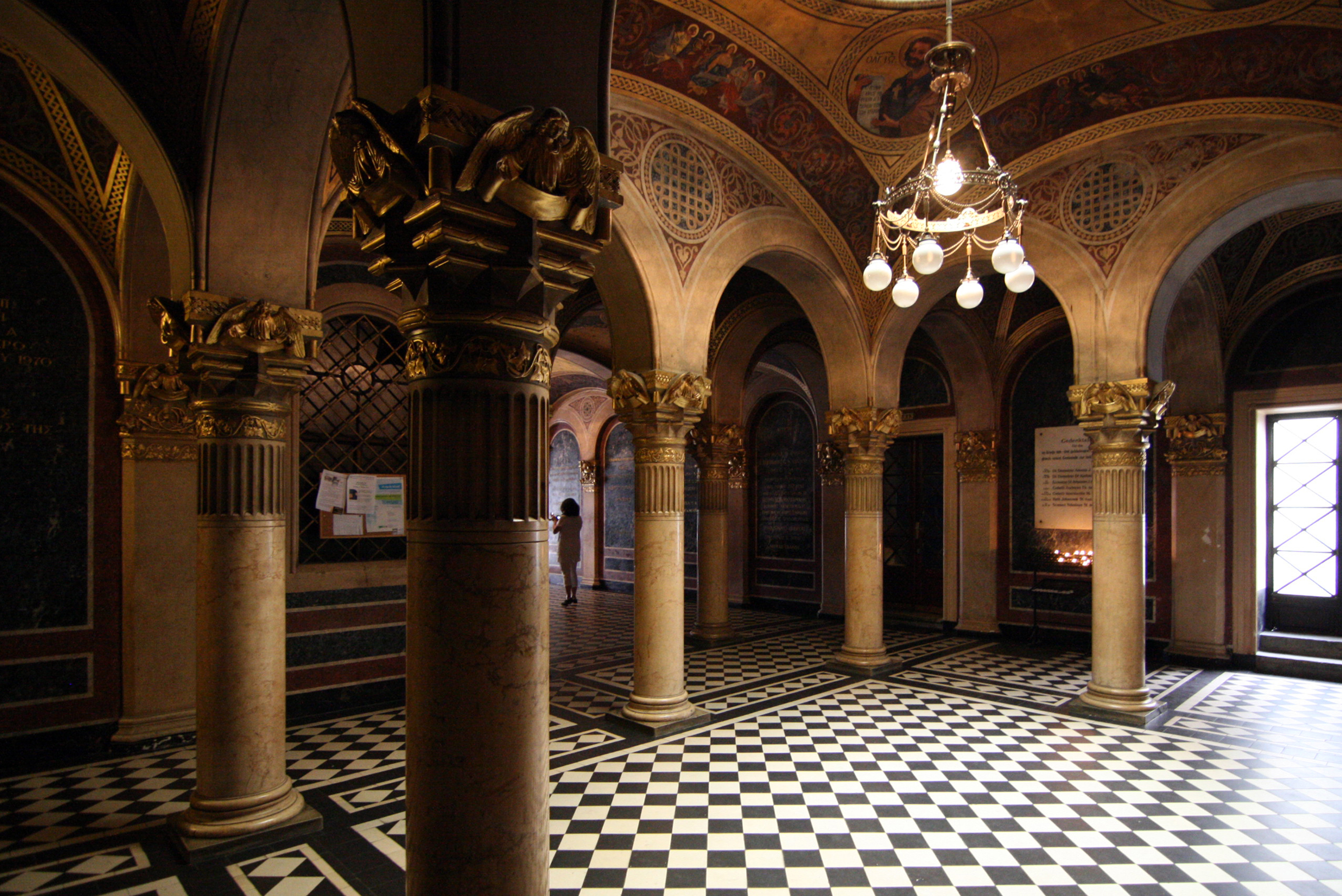 Lobby to the Greek Orthodox church of Holy Trinity by Theophil von Hansen